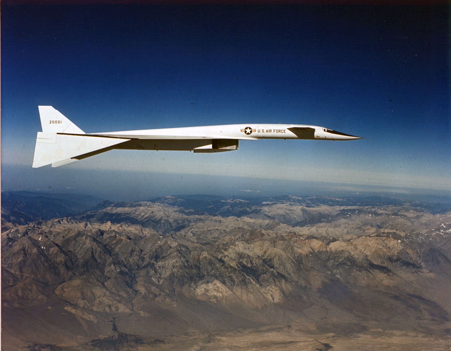 North American XB-70A Valkyrie in flight (SN 62-0001)